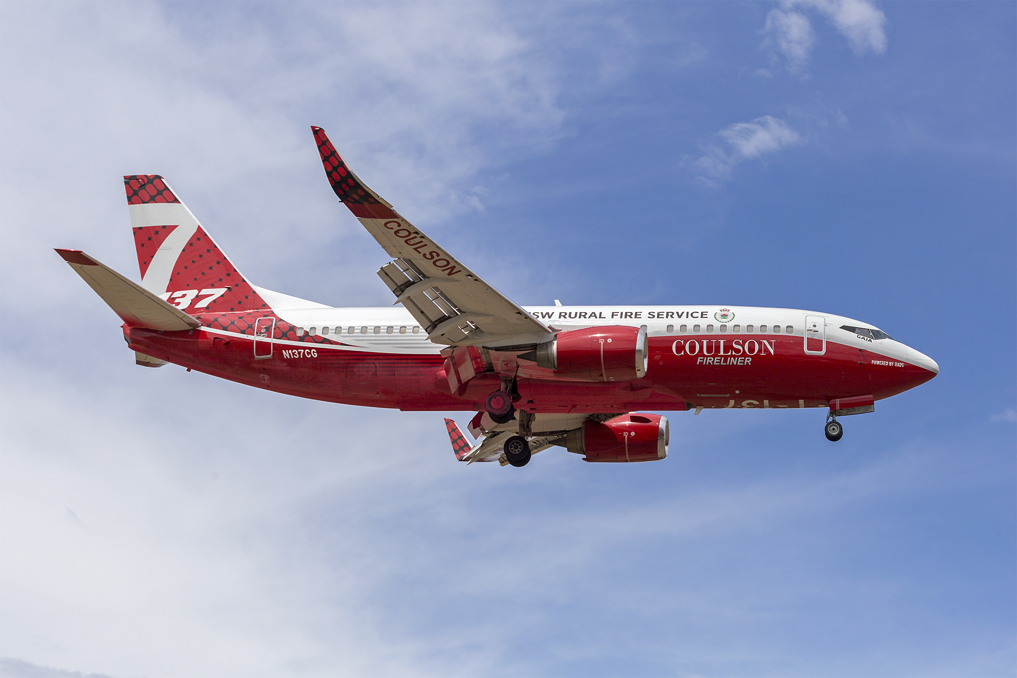 Coulson Aviation (N137CG) Boeing 737-3H4(WL) at Albury Airport